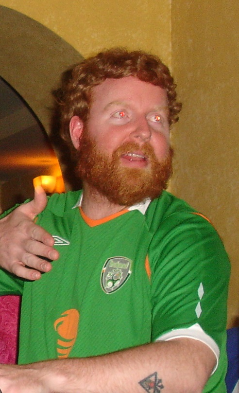 David McDonald at his birthday party in November 2008